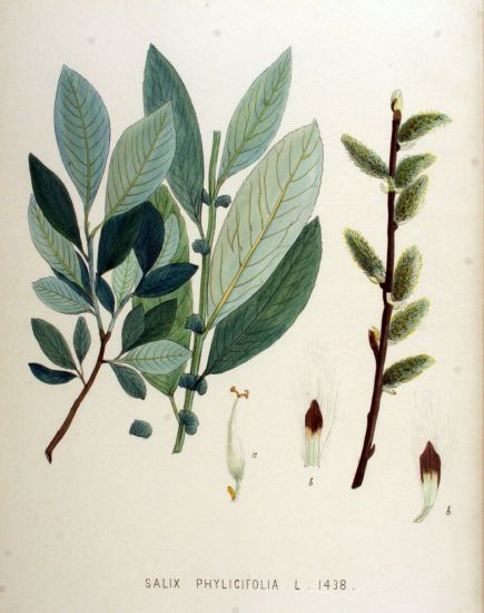 Salix phylicifolia L.